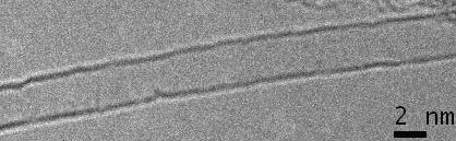 TEM image of SWNT